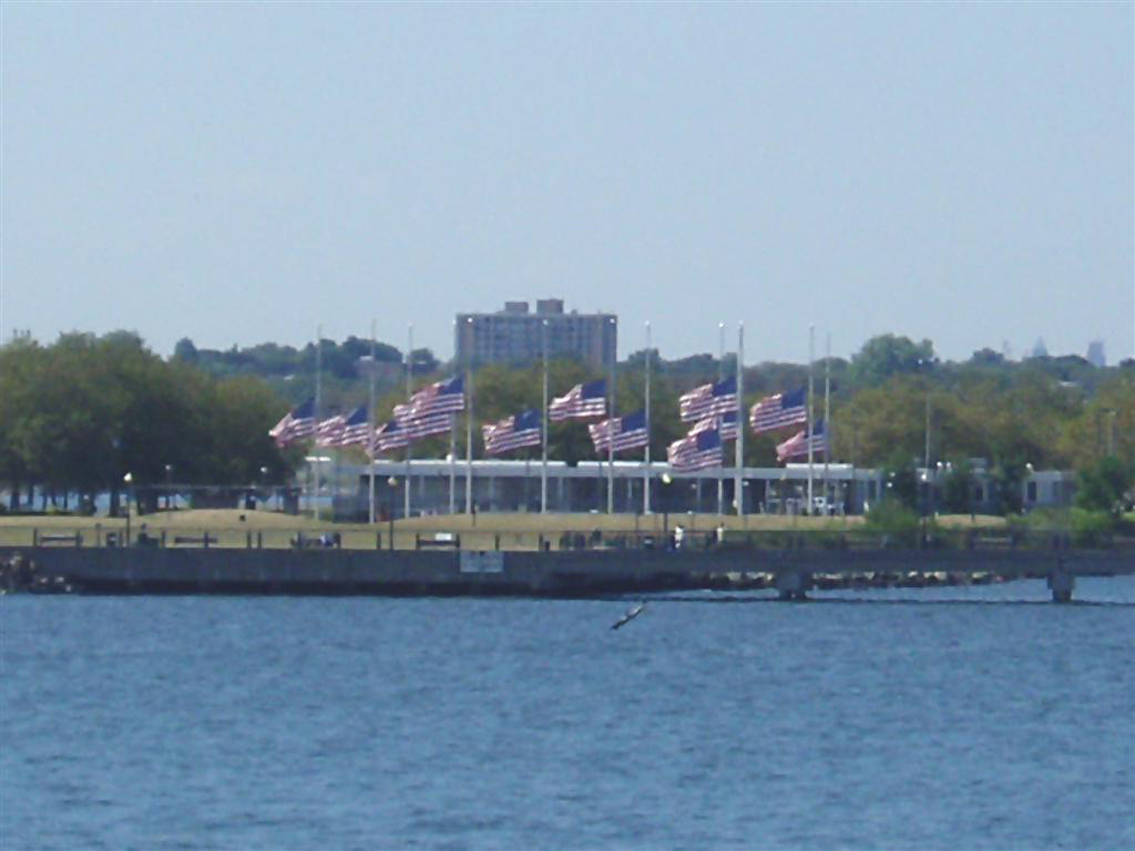 Picture taken by BigMac on September 9, 2005.